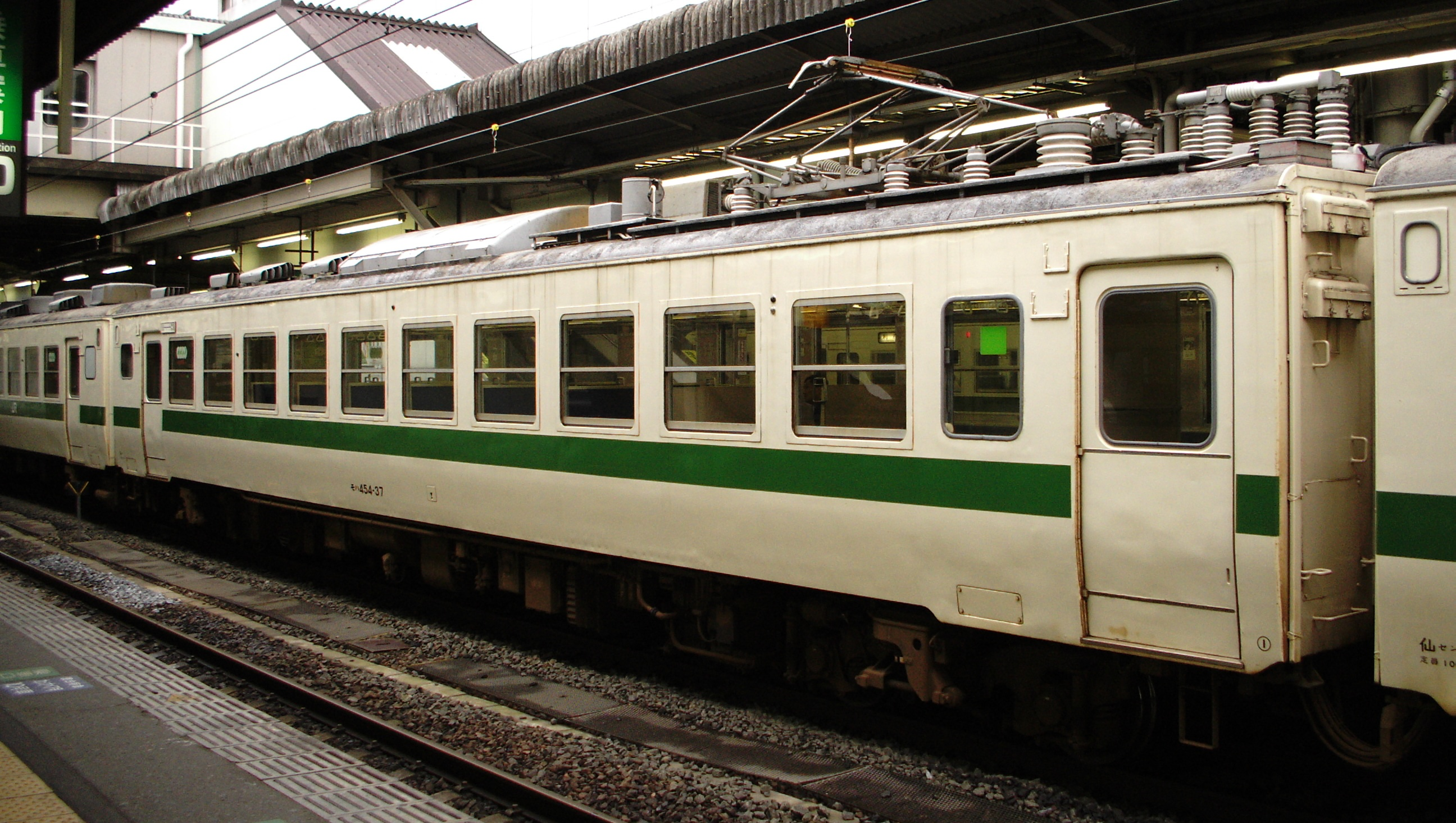 JR East 455 series EMU car MoHa 454-37 at Sendai Station